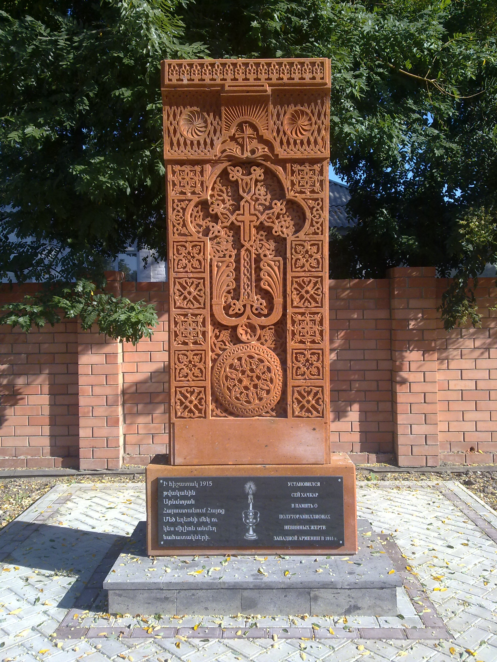 Armenian curch of Saint Sargis in Slavyansk-na-Kubani (Russia). Khachkar on of victims of Armenian Genocide 1914-1915 established in a court yard of church